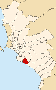 Map of Lima highlighting the district of Villa el Salvador Created by Tuomas Carrasco - Mar. 2005